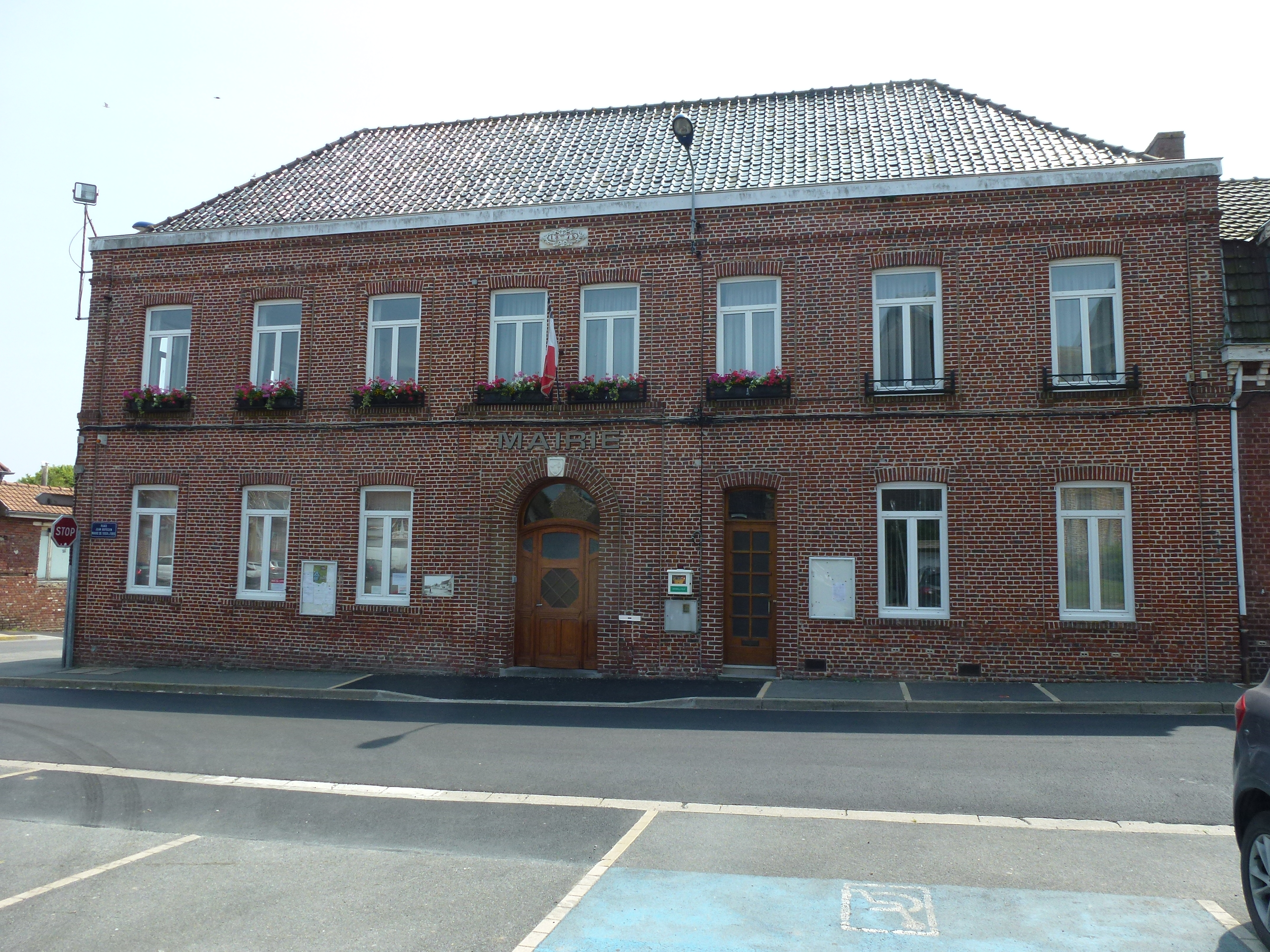 Steenbecque (Nord, Fr) mairie